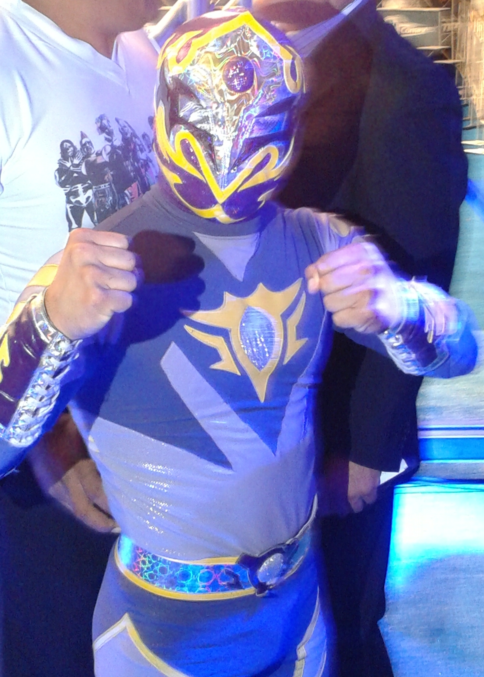 Mascarita Divina during the 2012 ¿Quién Pinta para la Corona? held by Asistencia Asesoría y Administración on August 26, 2012 at Nave Lewis of Fundidora park in Monterrey, Nuevo León, Mexico.